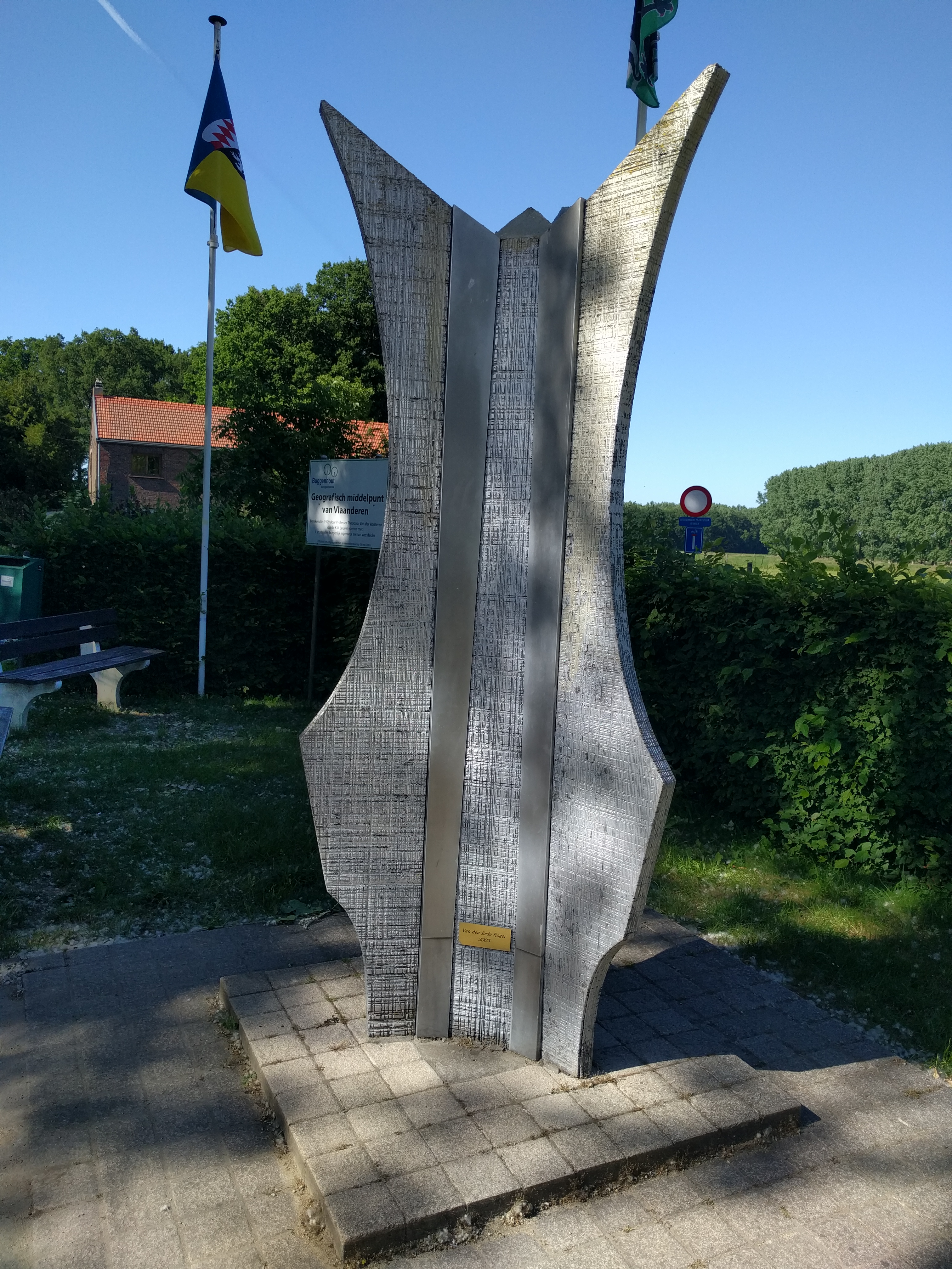 Statue placed in 2003 at the Geographical centre of Flanders.